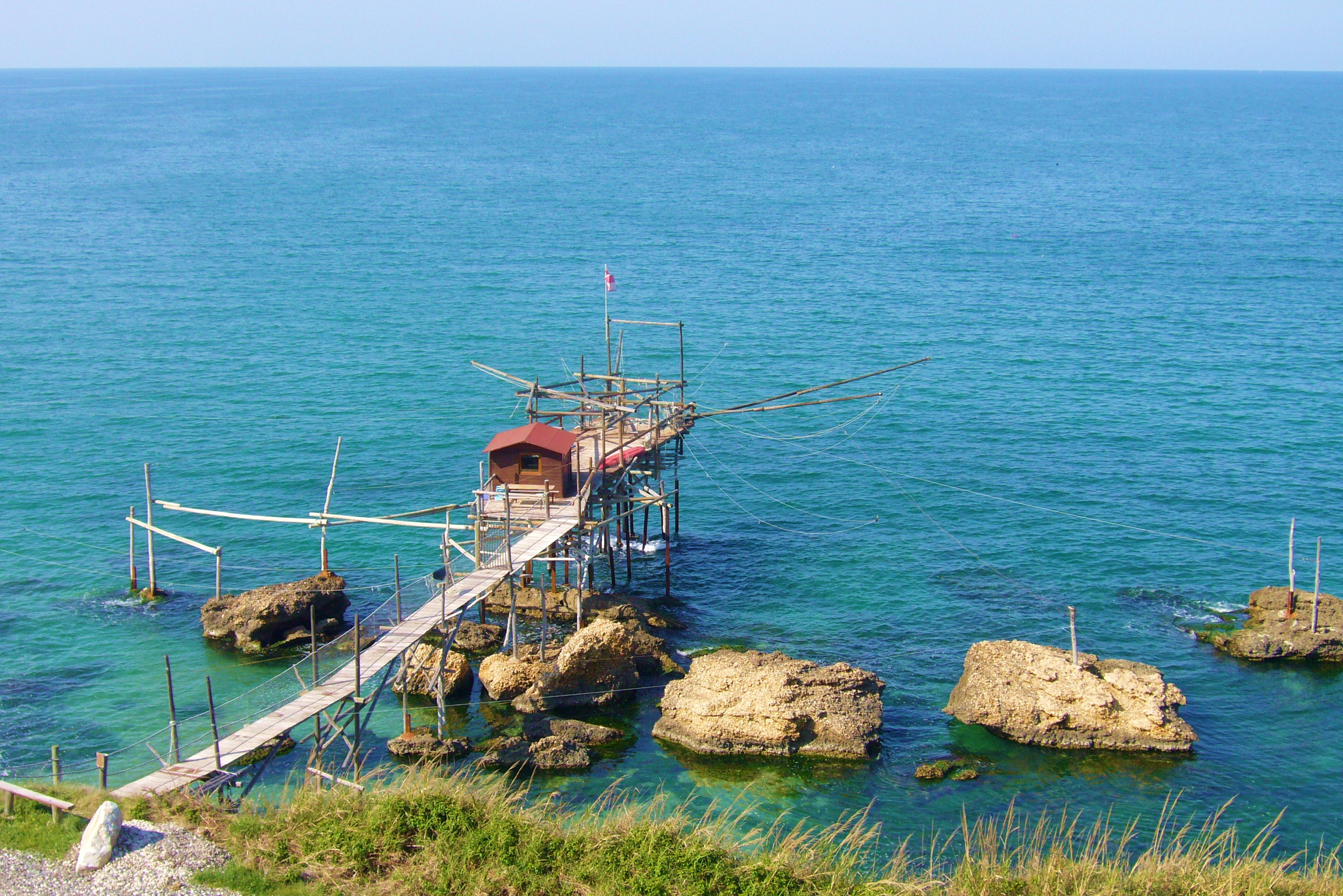 Trabocco